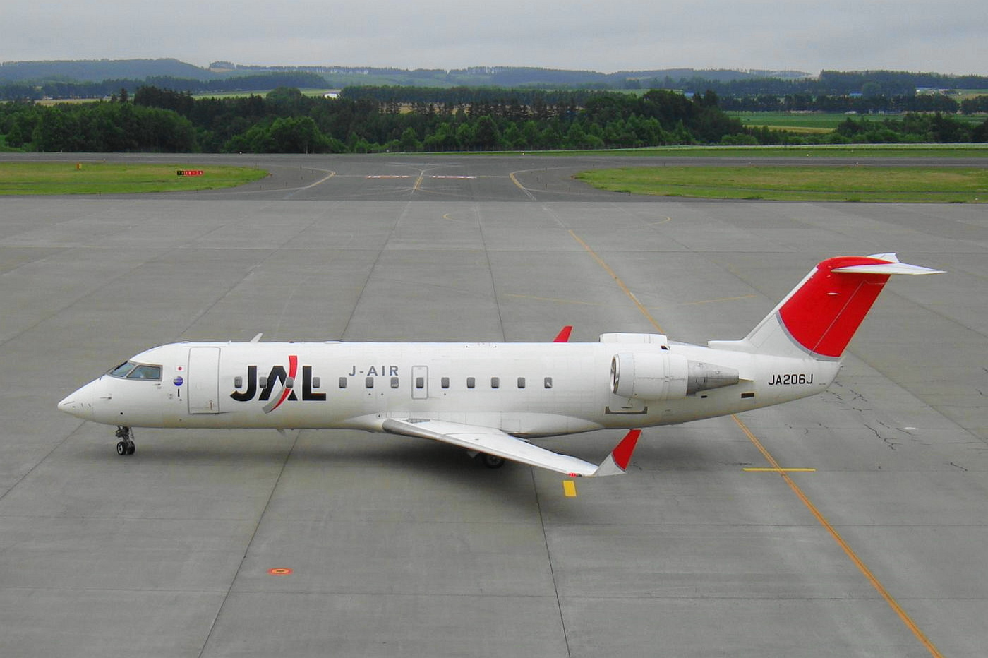 Japan Airlines(J-Air) Bombardier CRJ-200ER JA206J